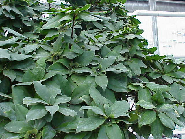 Species: Deherainia smaragdina Family: Theophrastaceae Image No. 3